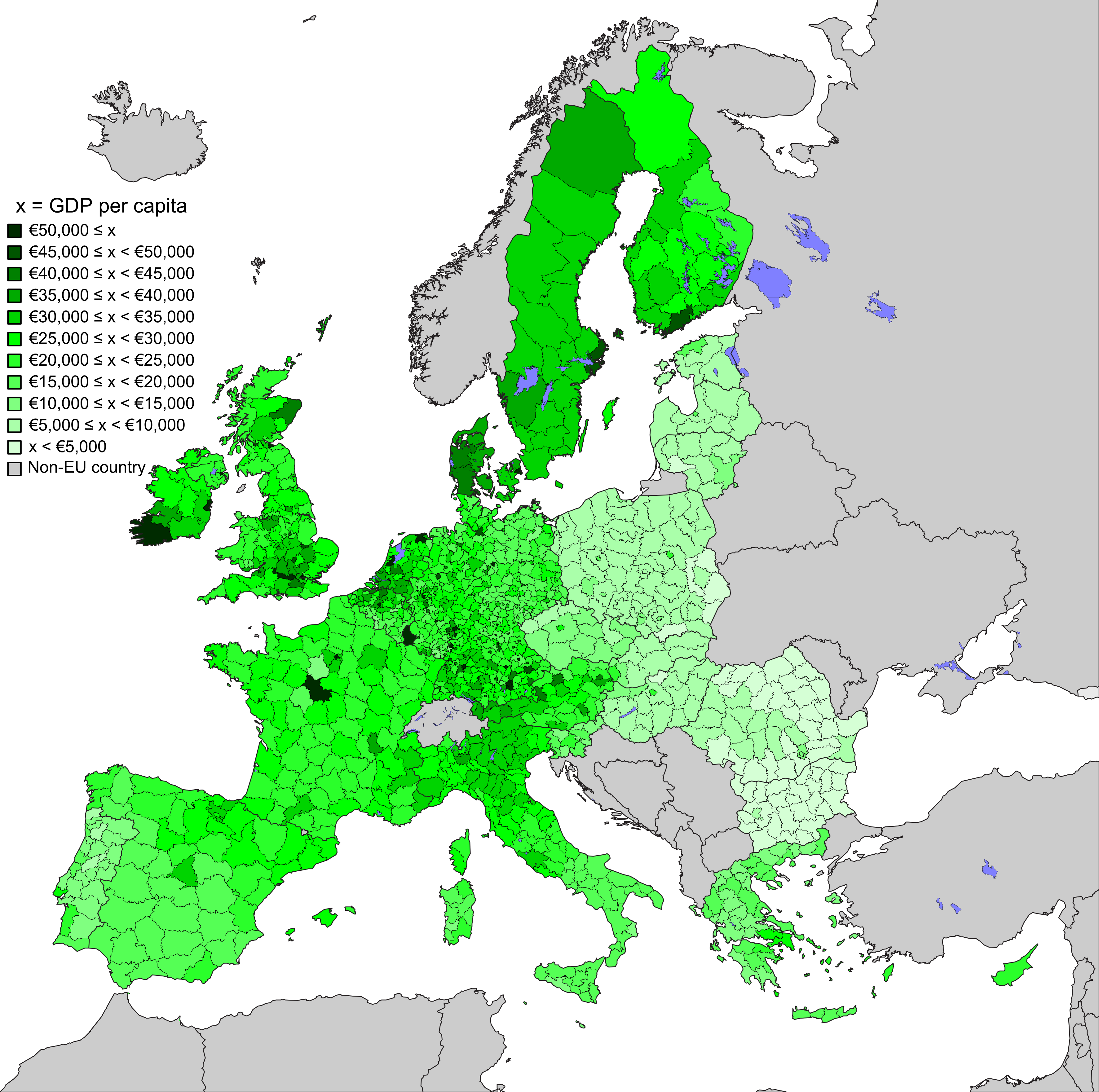 A map of Europe divided into countries; where EU member states are further divided by NUTS level 3 areas. The NUTS 3 areas are shaded green according to their GDP per capita in 2007 at current market prices in euros; darker green denotes higher GDP per capita and lighter green, lower GDP per capita.